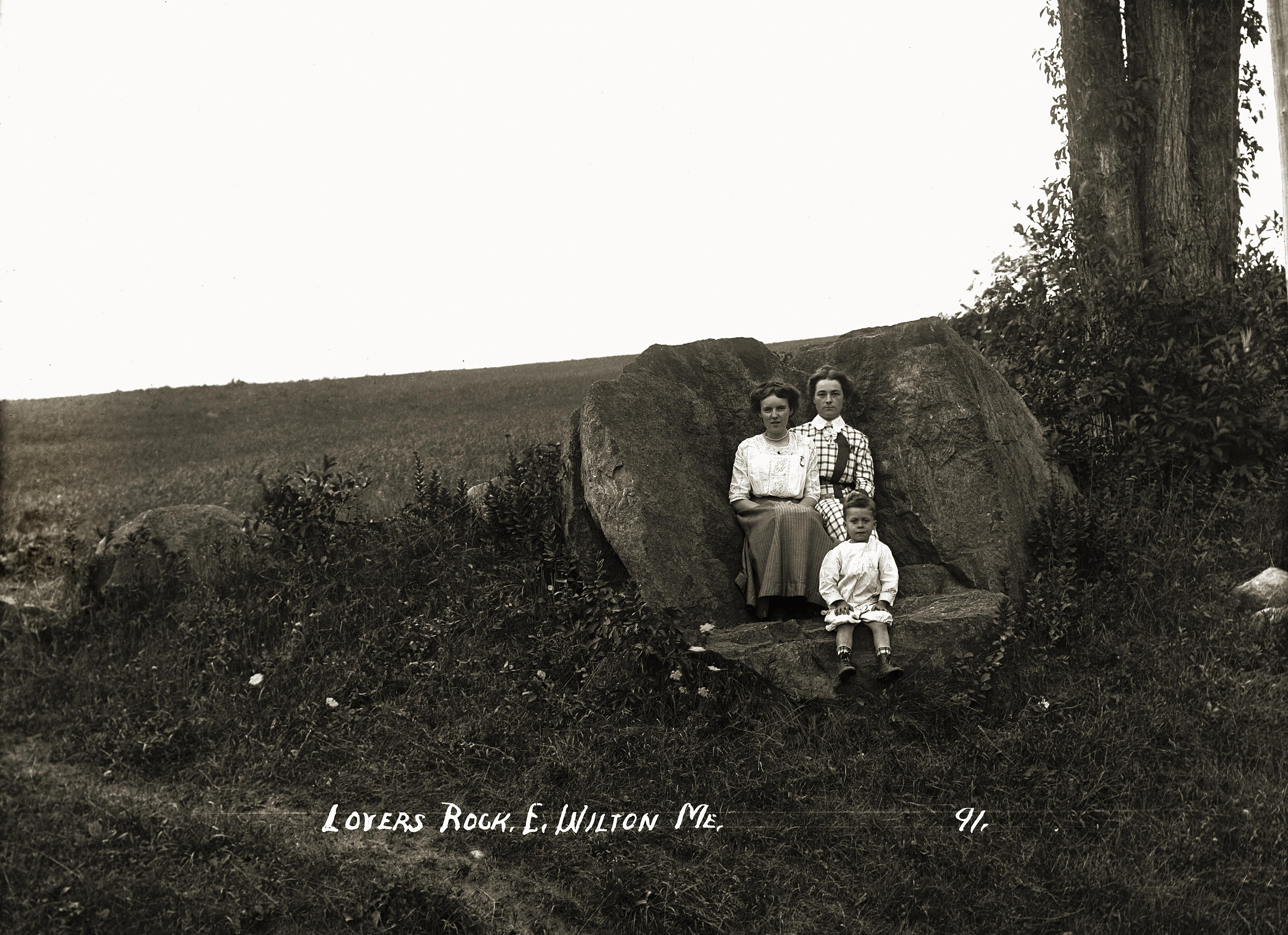 A glass negative, originally taken by a photographer from Eastern Illustrating & Publishing Co., a postcard manufacturer, of two women and a child posing at Lovers Rock in East Wilton, Maine, circa 1915. Courtesy of the Penobscot Marine Museum. Retouched by Marmaduke Percy. Penobscot Marine MuseumNative namePenobscot Marine MuseumLocationSearsport, Maine, United StatesCoordinates44° 27′ 33.0″ N, 68° 55′ 30.0″ WEstablished1970Website